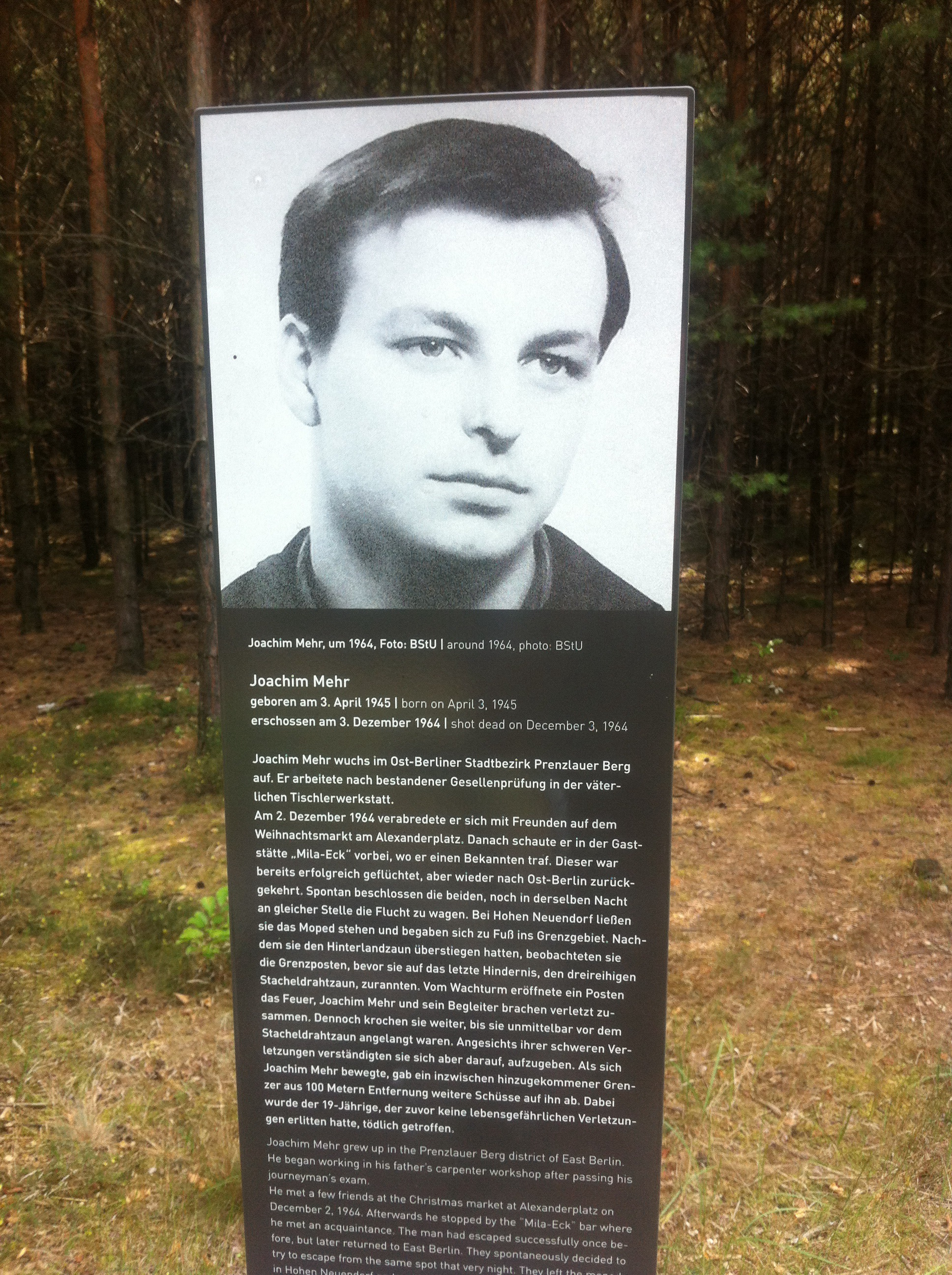 Joachim Mehr, Stele am Mauerweg (Frohnau)